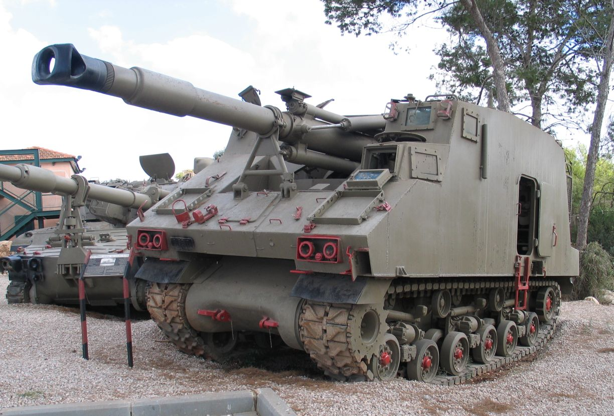 Description: L-33 Roem Israeli 155 mm self-propelled howitzer on M4 Sherman chassis in Beyt ha-Totchan, Zichron Yaakov, Israel. 2005. Source: Photo by me, User:Bukvoed.